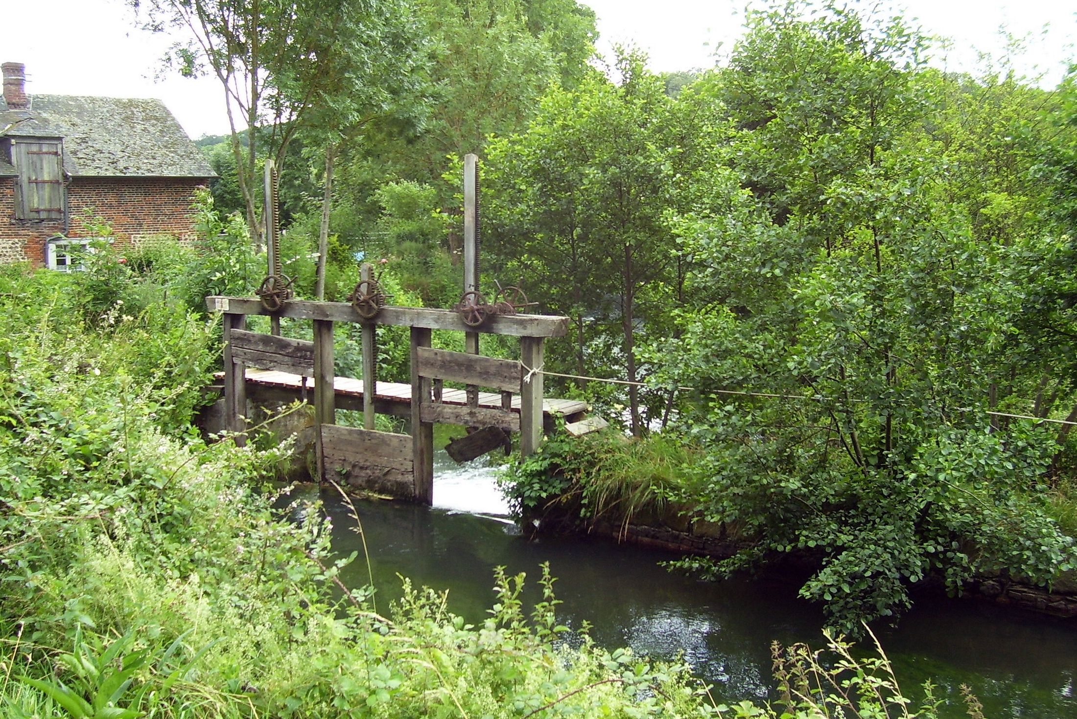 Weir of the Charentonne near the castle in Menneval (Eure, France).